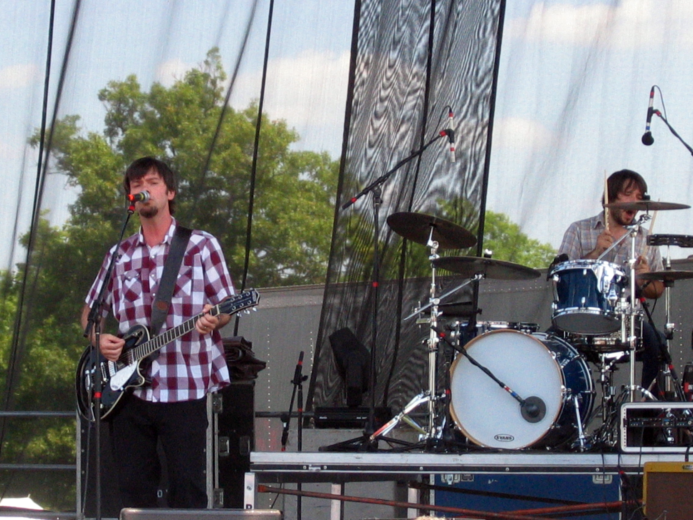 Son Volt performing at the Wakarusa Music Festival in Lawrence, KS on June 17, 2005.